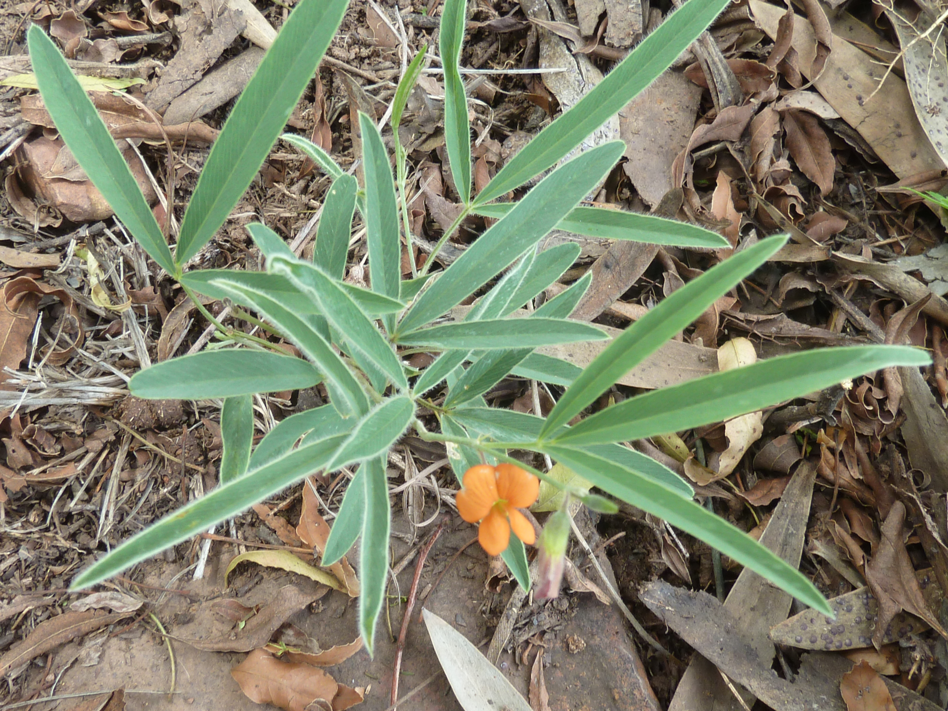 Tephrosia elongata, growing in the shade of Protea caffra, in the Voortrekker Monument Nature Reserve